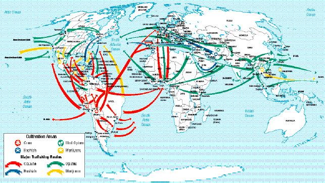 Major Narcotics Cultivation Areas and Trafficking Routes in 1991.